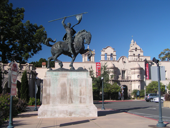 Statue of El Cid by Anna Hyatt Huntington located in Balboa Park, San Diego, California. The sculpture was created in 1923 and installed in 1930.